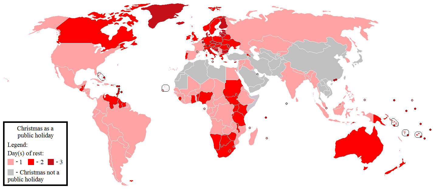 Map of Countries that recognize Christmas as a Public Holiday.